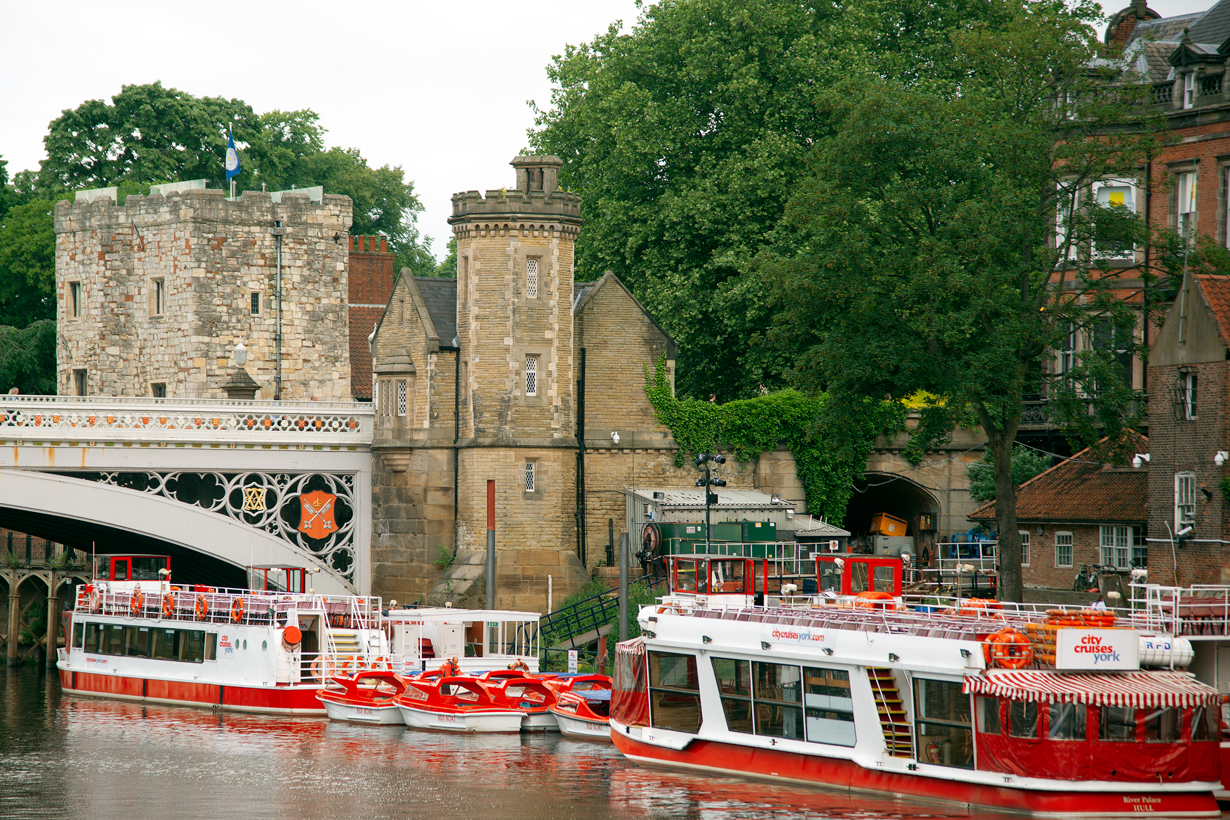 Tour boats offer visitors a glimpse of the city from another perspective